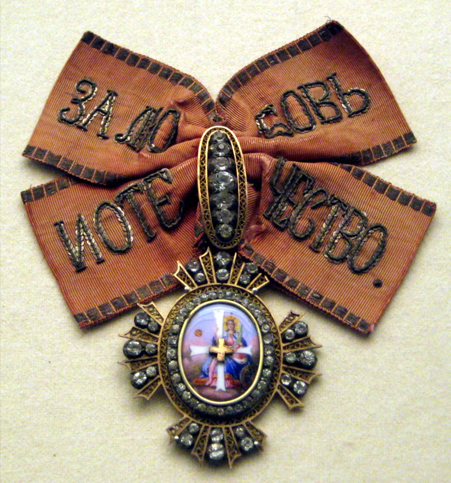 Badge of the Order of St. Catherine